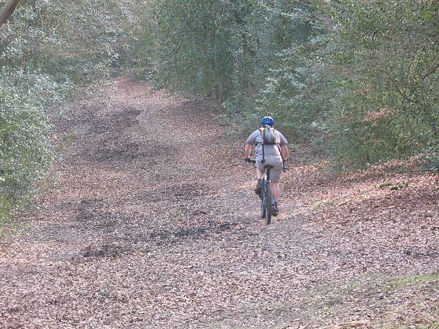 Epping Forest: cyclist Cyclists are allowed to use most of the paths in the forest. This mountain-biker is descending the top part of the path named on the Explorer map as the Forest Way.